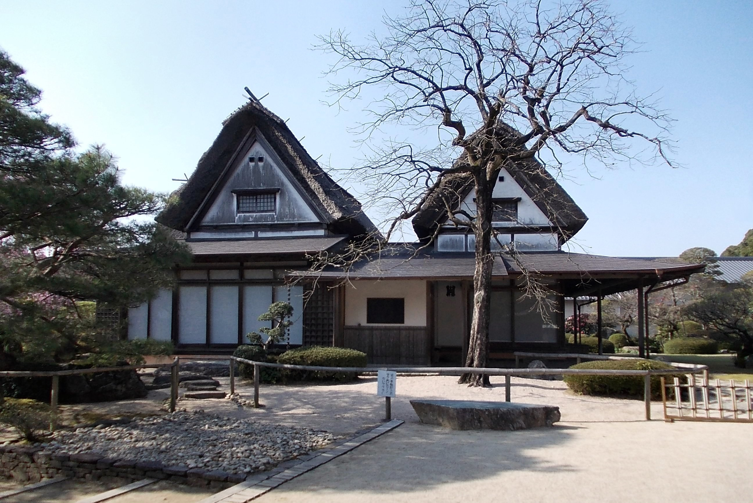 Kakiemon-Kiln, Arita, Saga, Japan